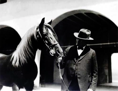 Will Keith Kellogg and Antez, an Arabian horse and allegedly one of his favorite horses, with the horse stables (currently the University Plaza building at California State Polytechnic University in the background). According to the Cal Poly Pomona University Library Special Collections, once while riding Antez in 1926, Kellogg slipped-off and fell under it while his foot remained caught-up in the stirrup. The horse stood still until help came; thus, preventing Kellogg from sustaining further injuries. Since then, Kellogg maintained that "Antez had saved his life".